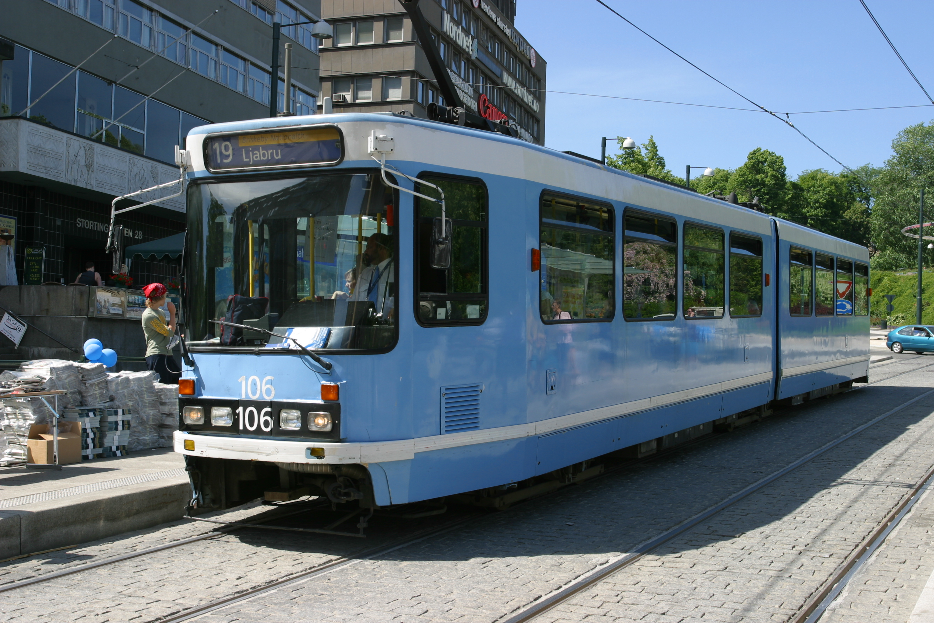 Picture of SL79-I #106 (Oslo, Norway).